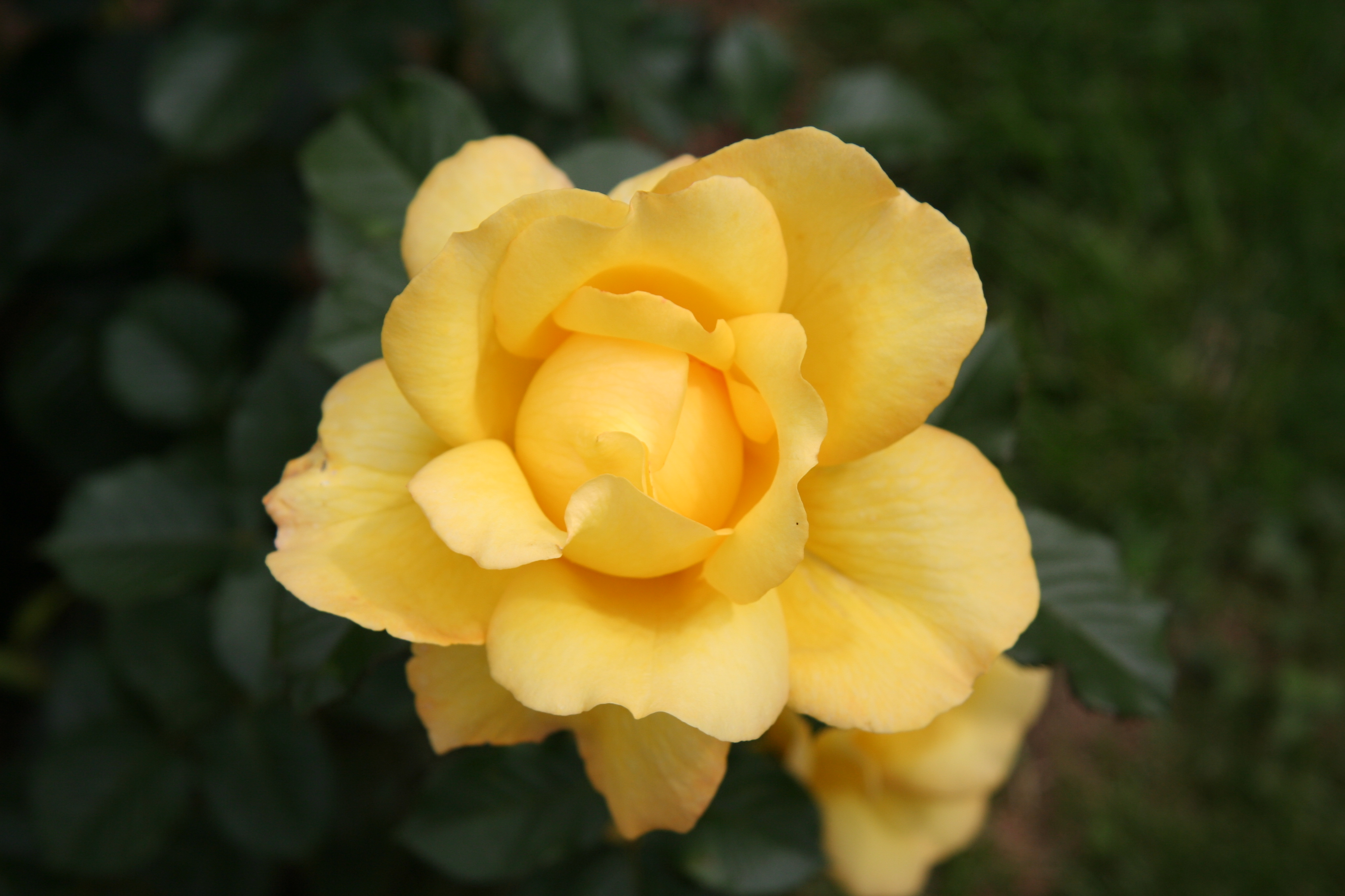 Mounbatten rose - Bagatelle Rose Garden (Paris, France).